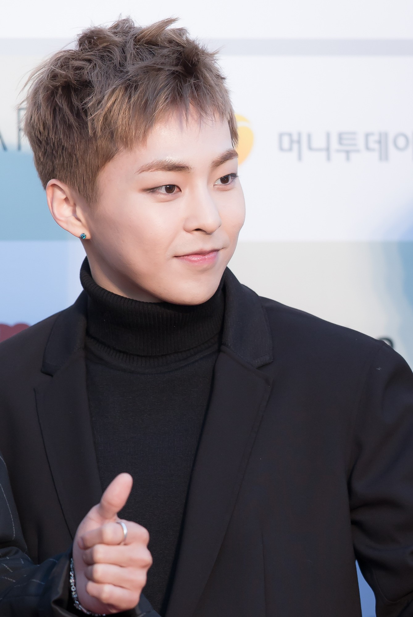 thumb